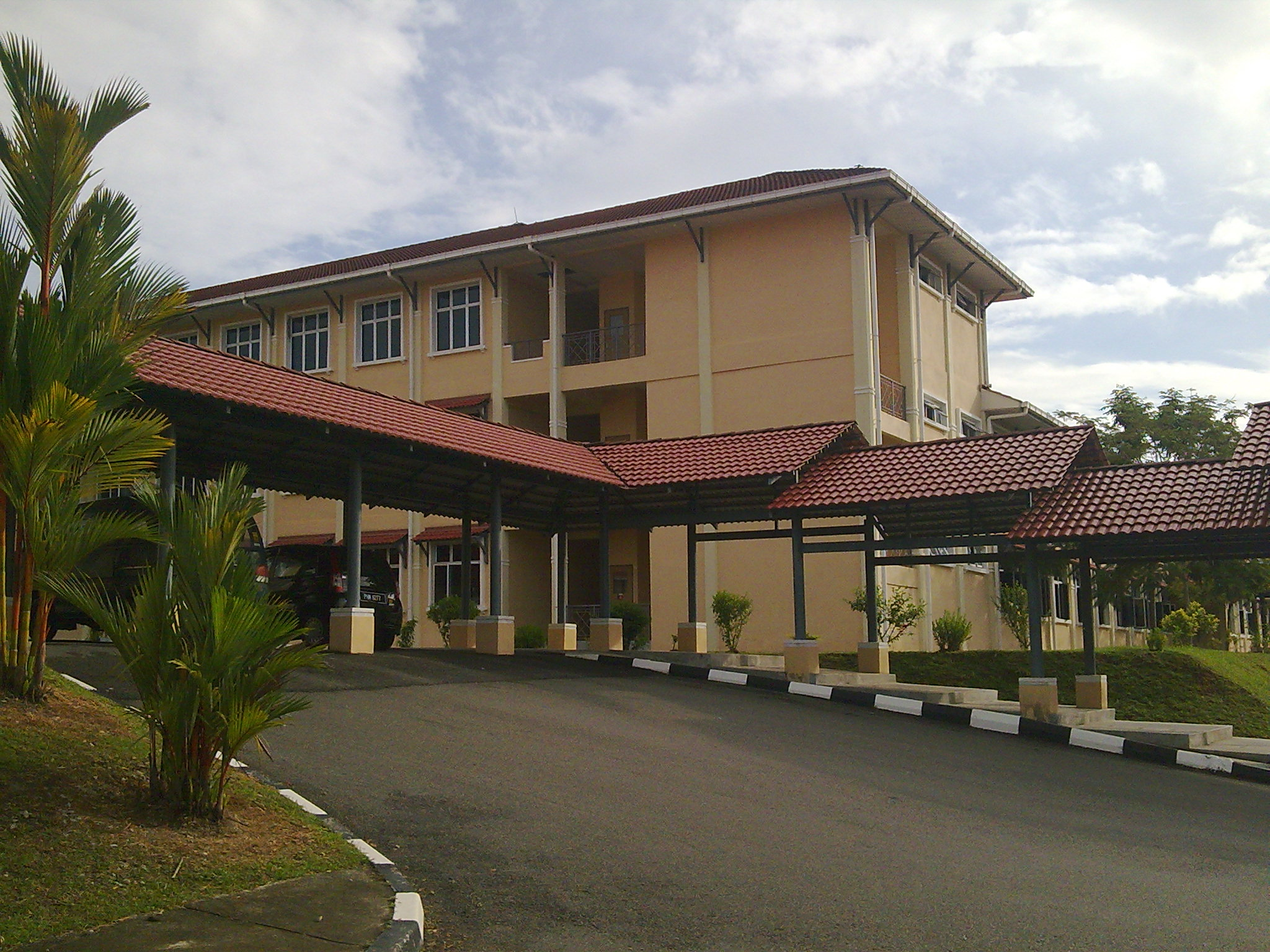 ptsb